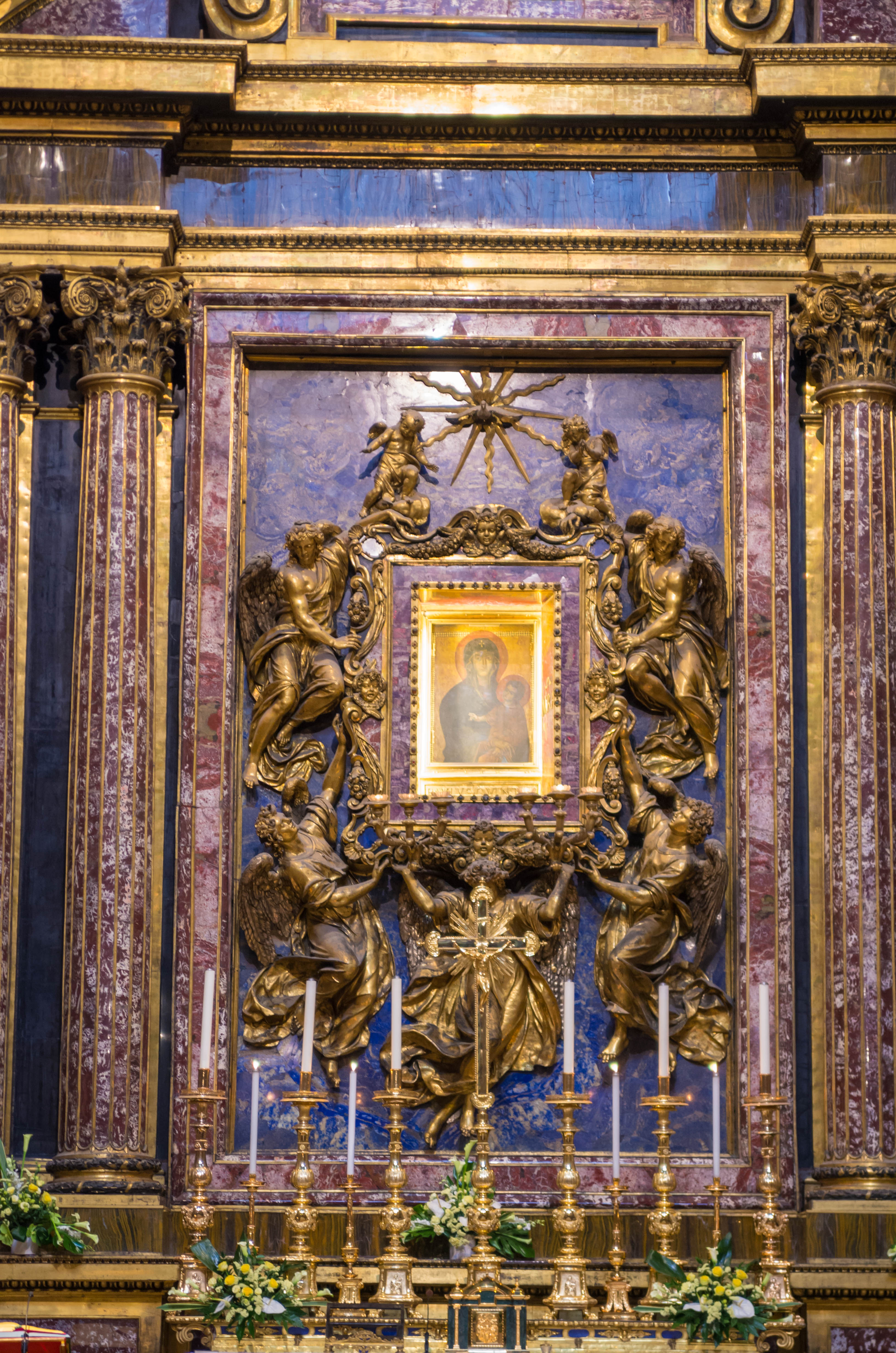 Interior of Santa Maria Maggiore (Rome)